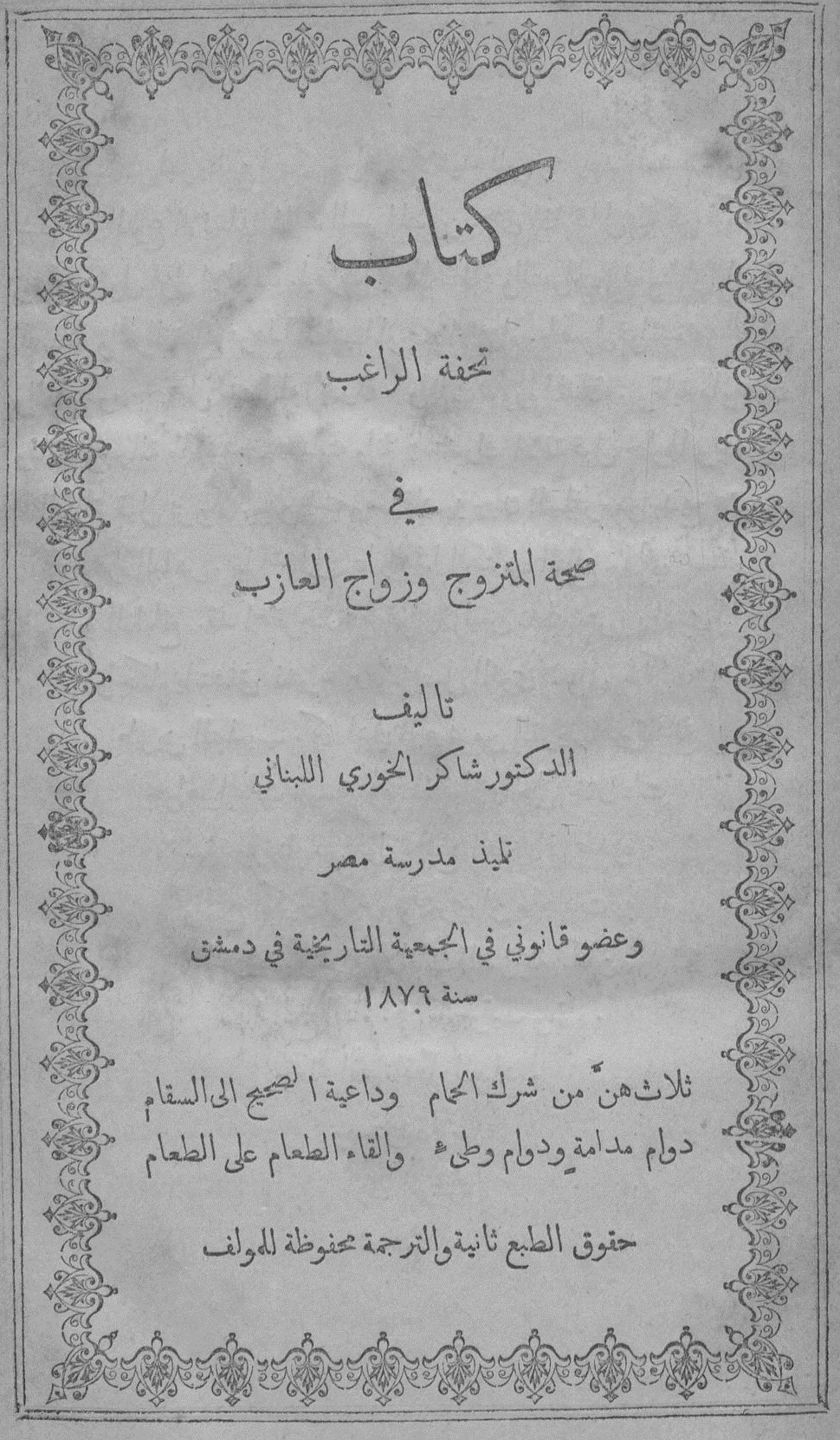 Cover of Kitāb tuḥfat al-rāghib fī ṣiḥḥat al-mutazawwij wa-zawāj al-ʻāzib - 1879